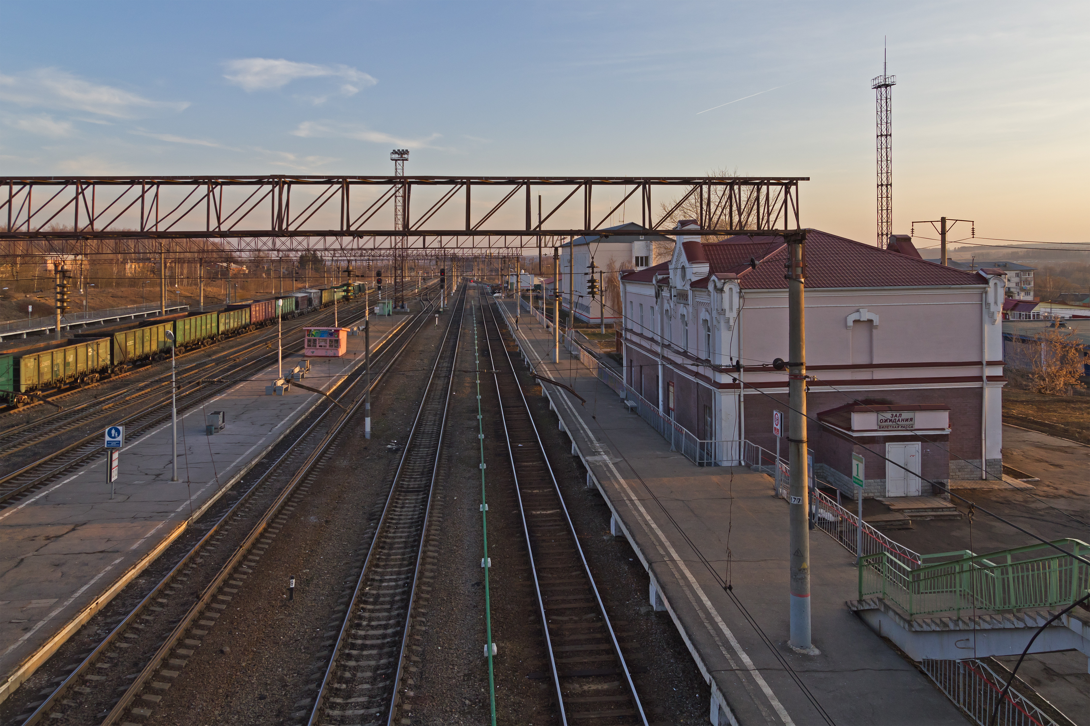 View of the platforms of Uzunovo station, Moscow Oblast, Russia.